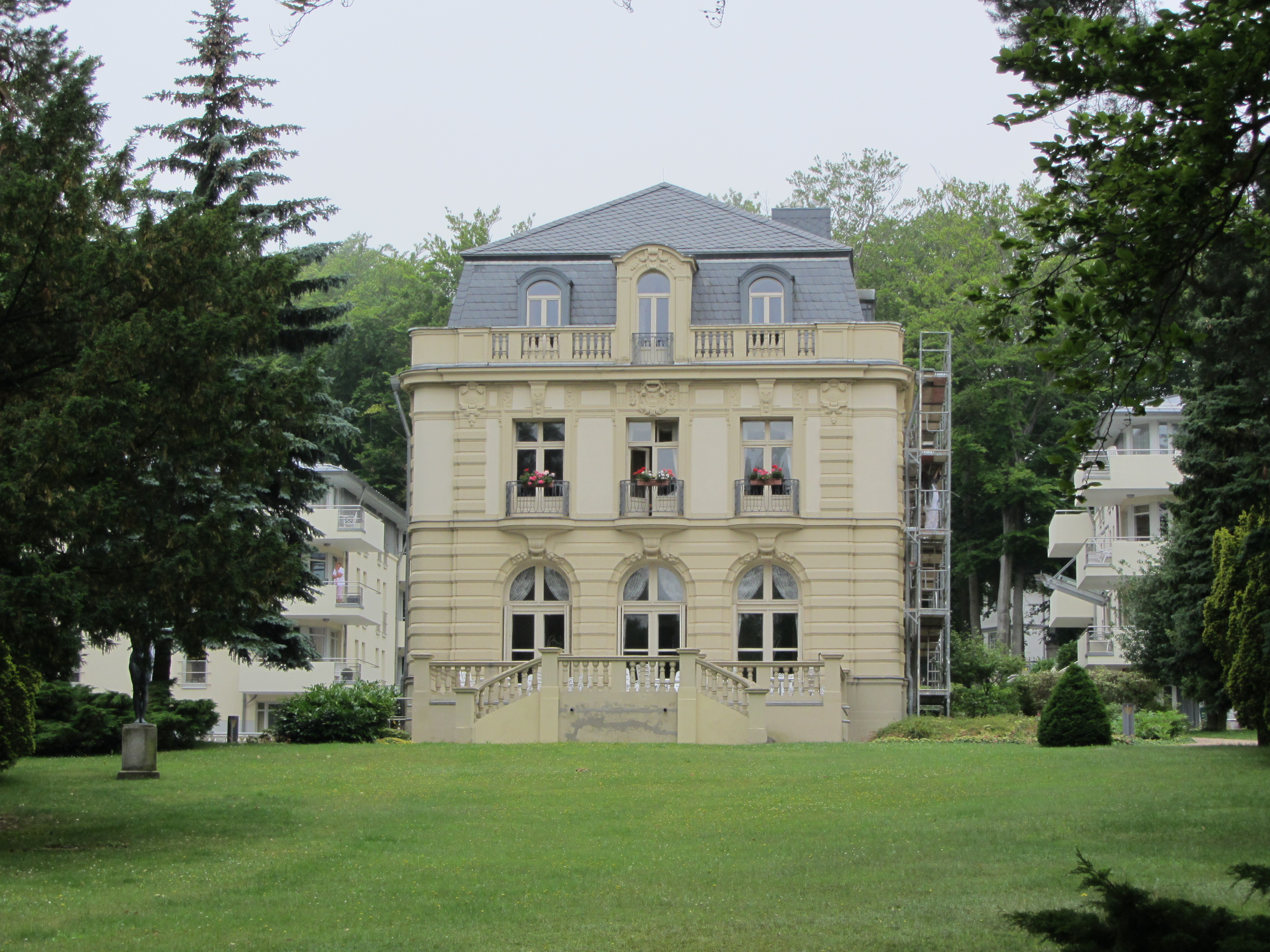 Residenz Bleichröder in Heringsdorf, district Vorpommern-Greifswald, Mecklenburg-Vorpommern, Germany